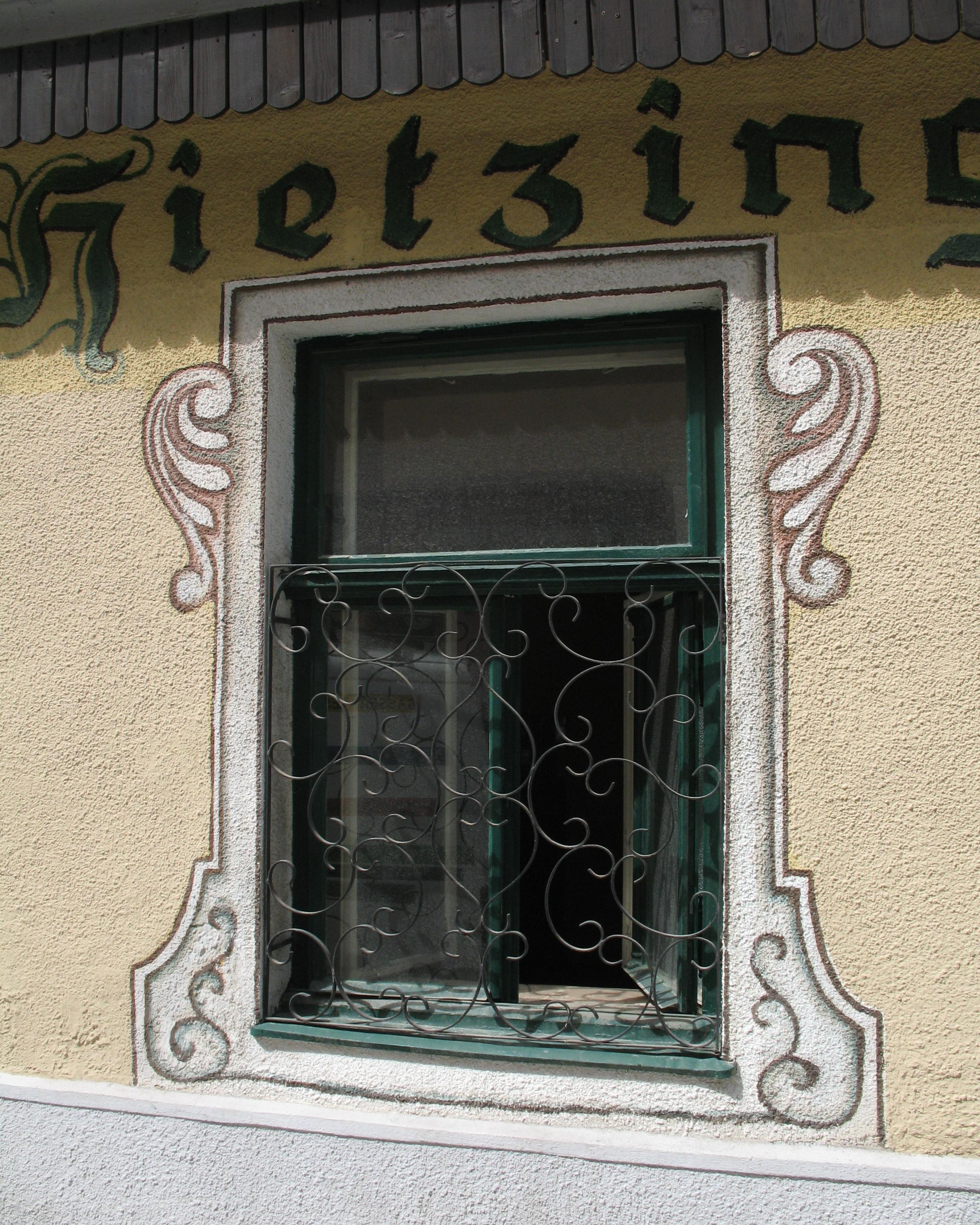 Window of wine tavern in Vienna, Austria